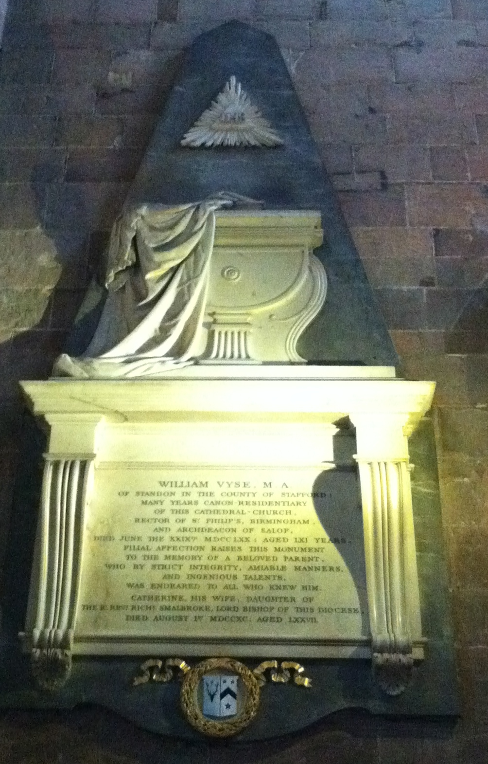 Died 1 August 1790